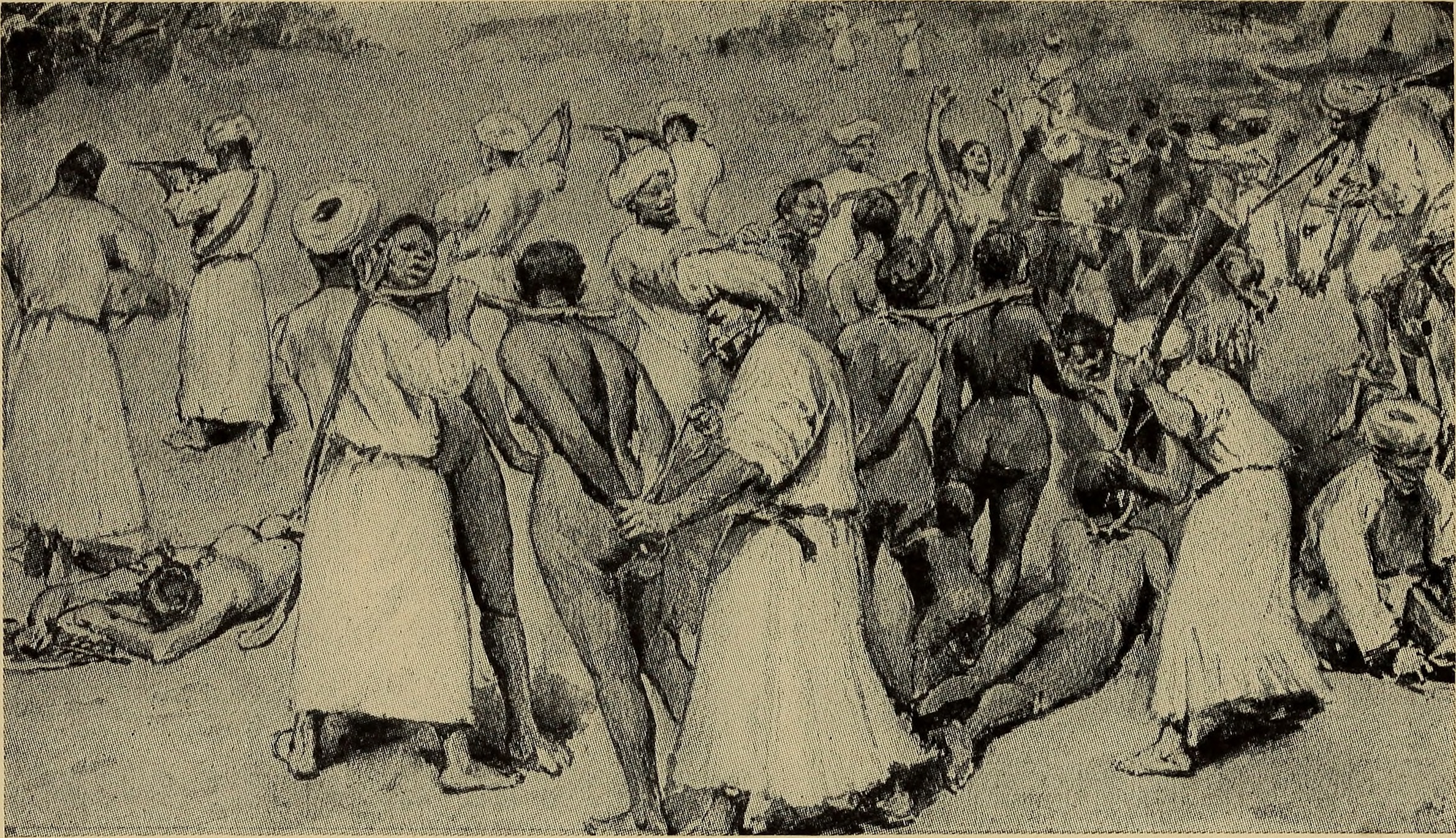 Illustration of slave raiding in Southern Sudan in the 19th century